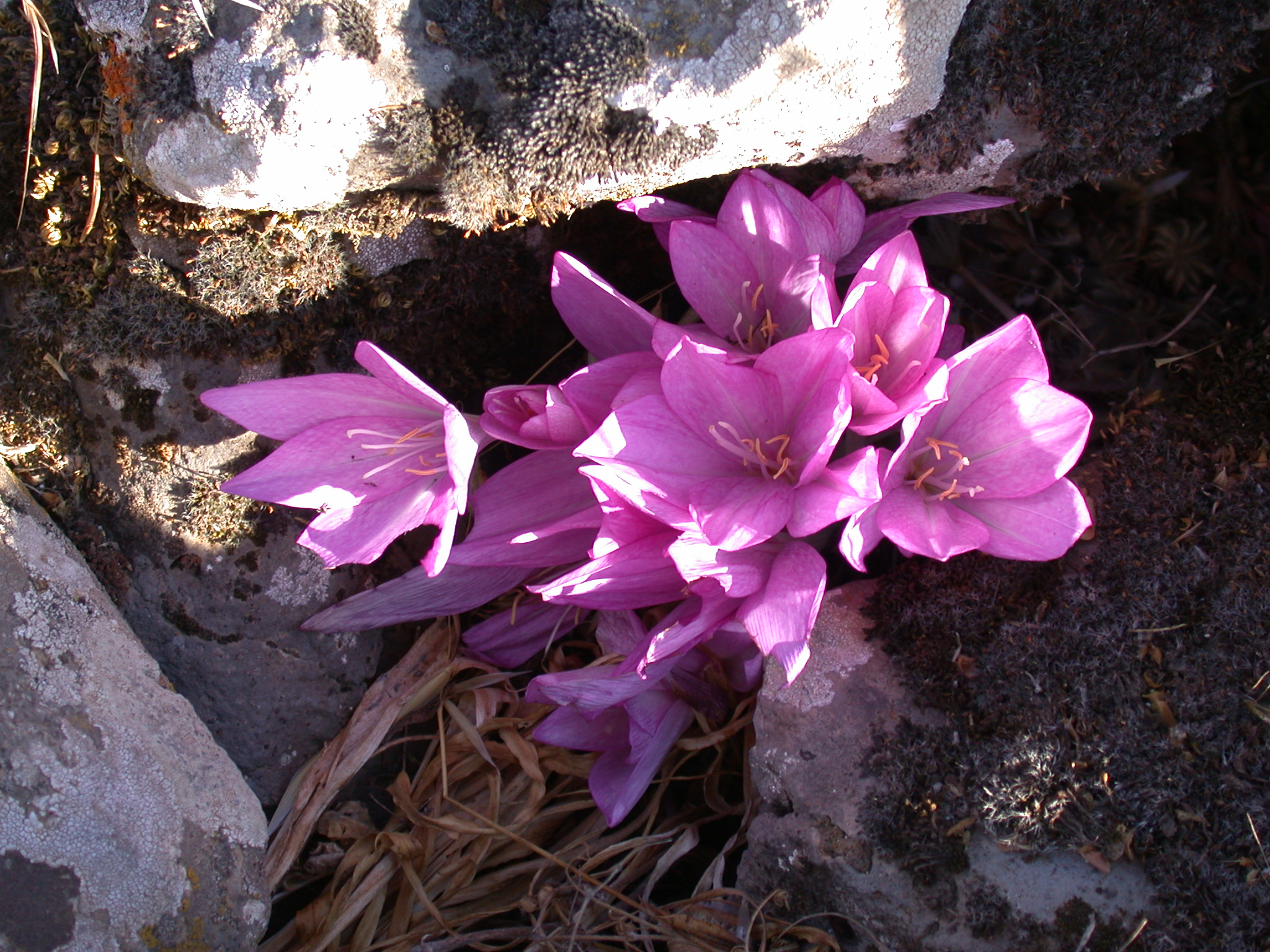 Colchicum feinbruniae K.Perss. (סתוונית התשבץ, סתוונית הפסיפס), Reches Chezka, Golan Heights, Israel/Syria, October 7, 2006.